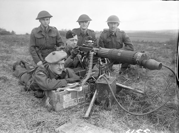 Officers of the Cameron Highlanders of Ottawa with machine gun. (Front, L-R) Maj. G.F. Clingdon, Lt. Col. H.V.D. Laing. (Rear, L-R): Lts. W.H. Armstrong, G.O. Handley, Capt. Roger Rowley 8 Apr. 1942 / Lindfield, England ˜